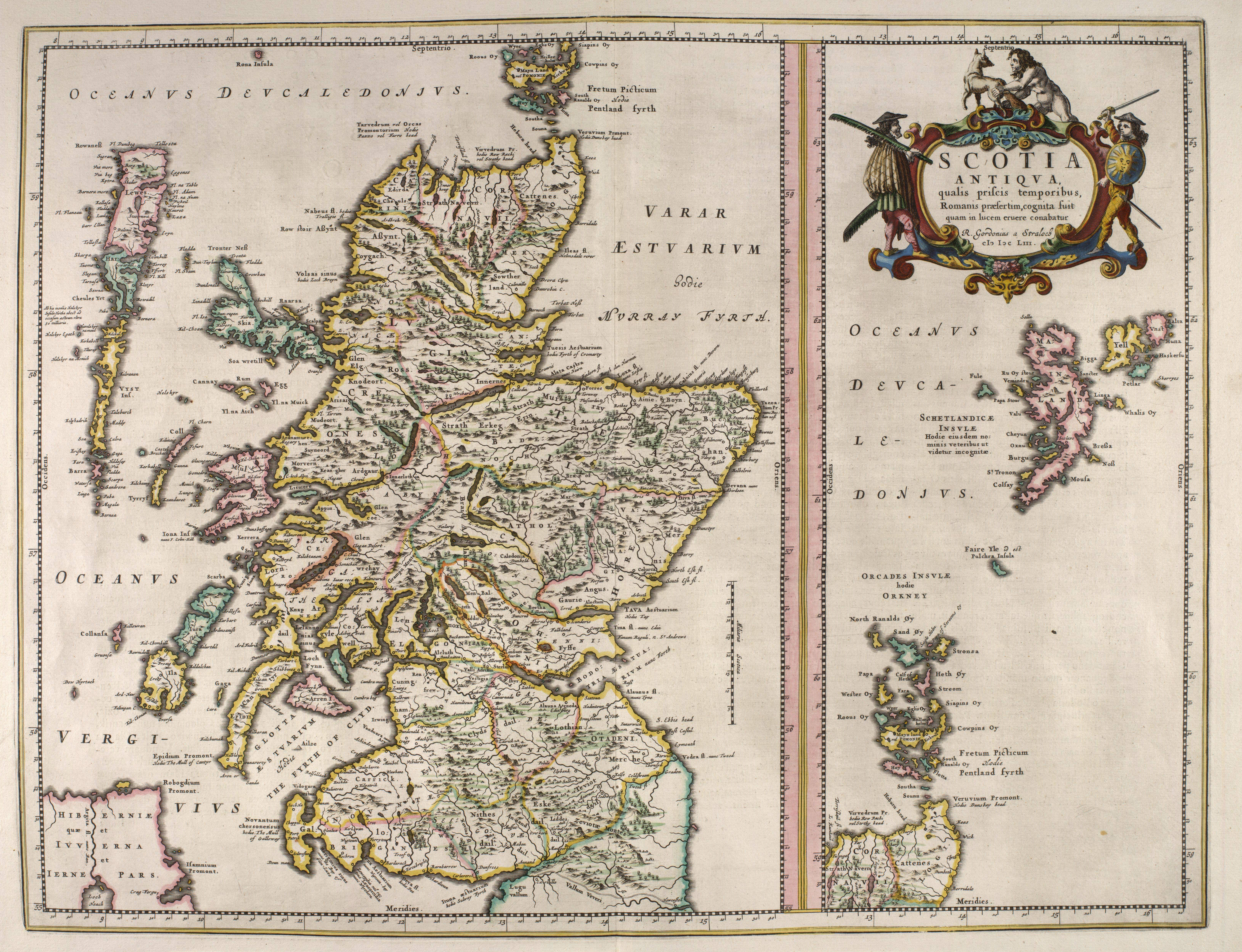 SCOTIA ANTIQUA - Old Scotland